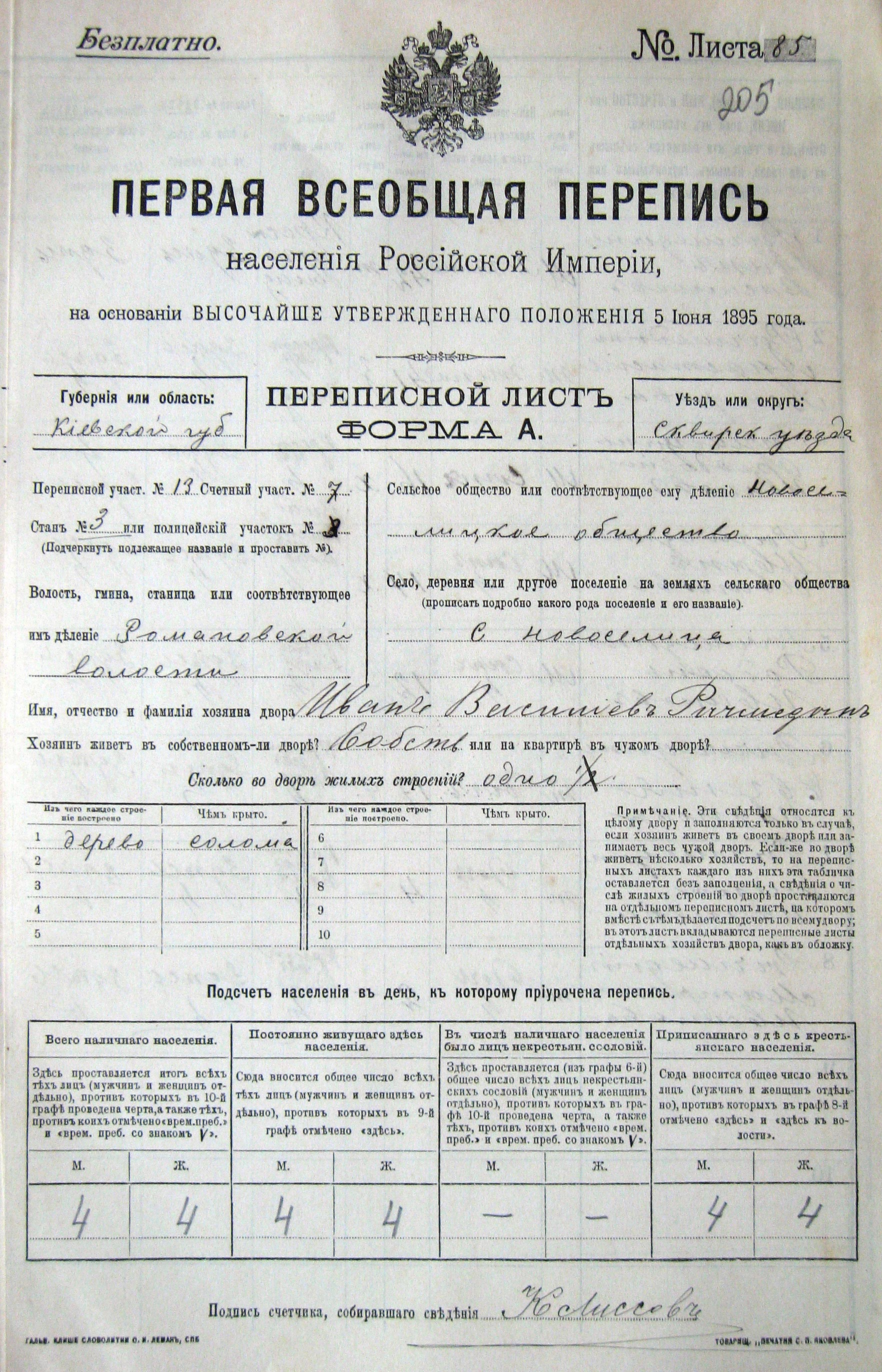 Picture of the first page of a Russian Empire Census form from Kiev Governorate in 1897. Original document is kept in Kyiv State Archives, Ukraine.